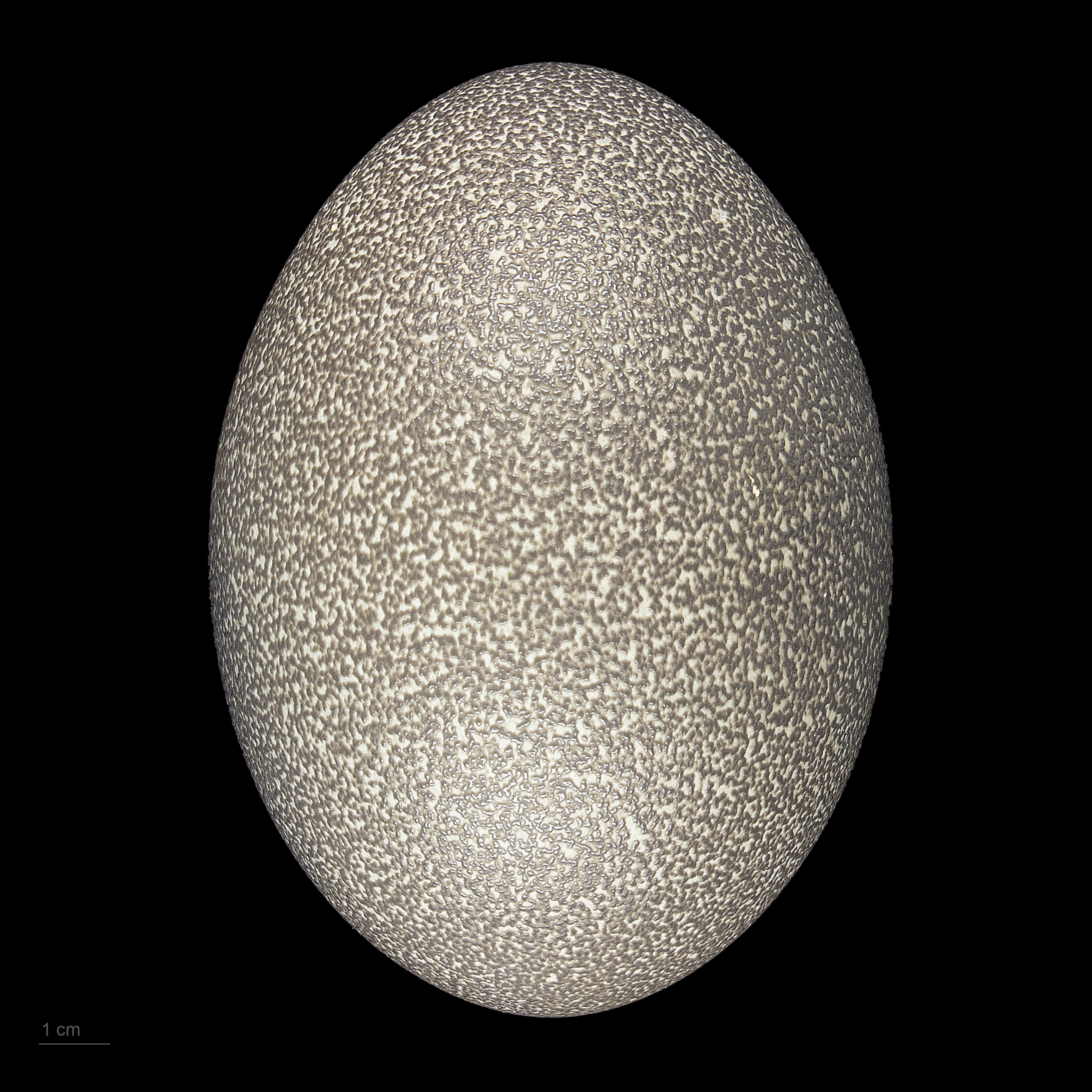 Egg of Emu Collection of Jacques Perrin de Brichambaut.